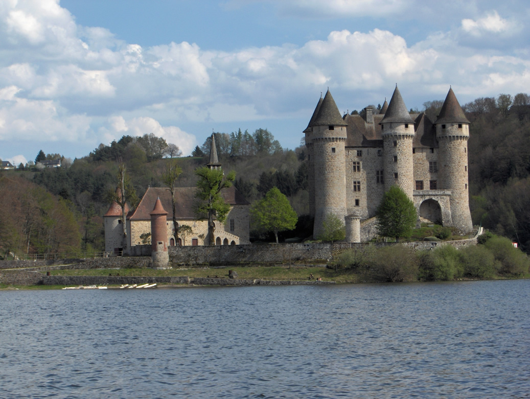 Photo taken by myself, whilst on a boat trip on the Dordogne river. Lewispb 21:38, 30 May 2006 (UTC) The château de Val is located in Lanobre, not in Bort-les-Orgues.